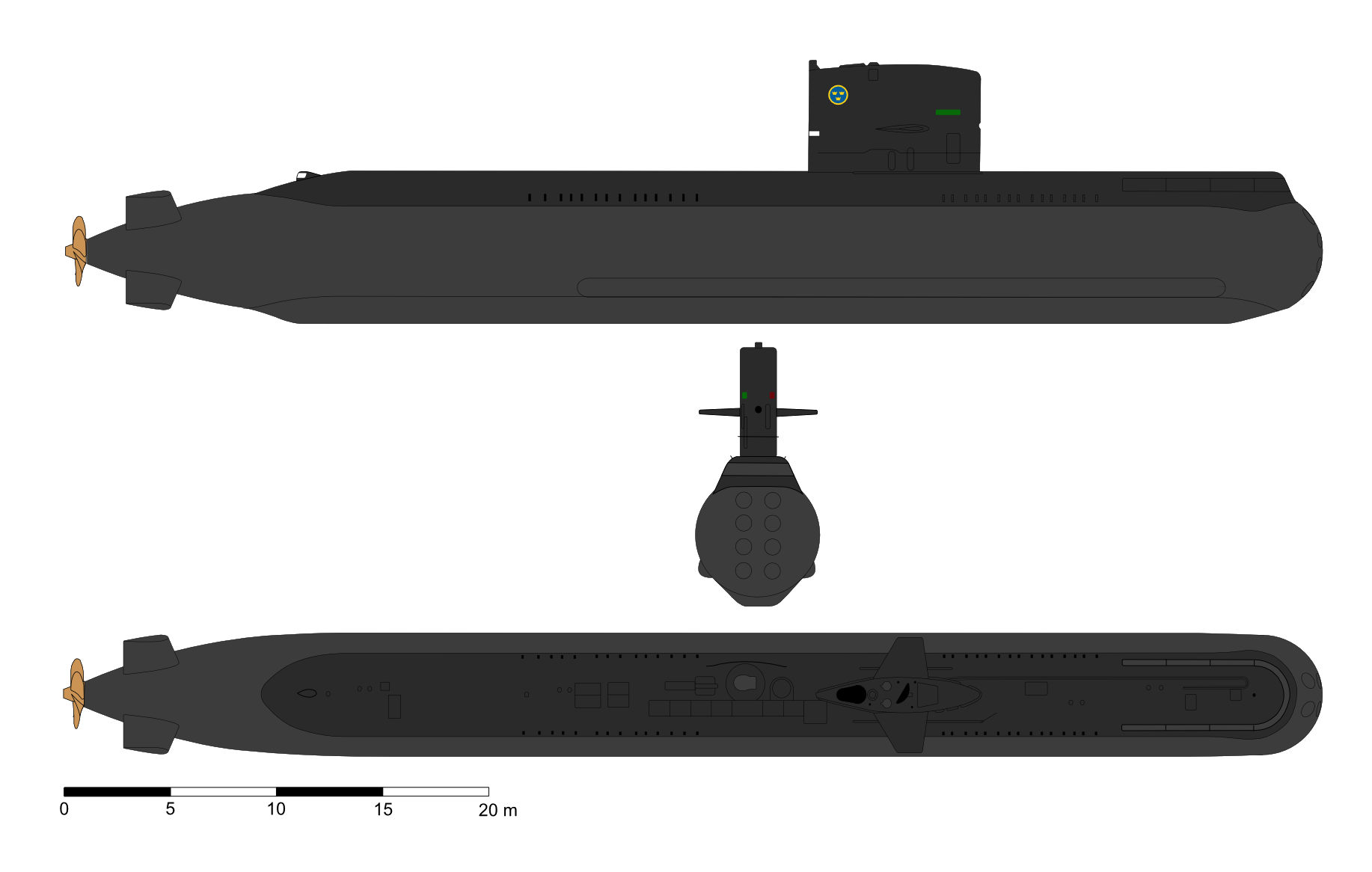 The Swedish submarine HMS Näcken after the stirling machinery was installed.